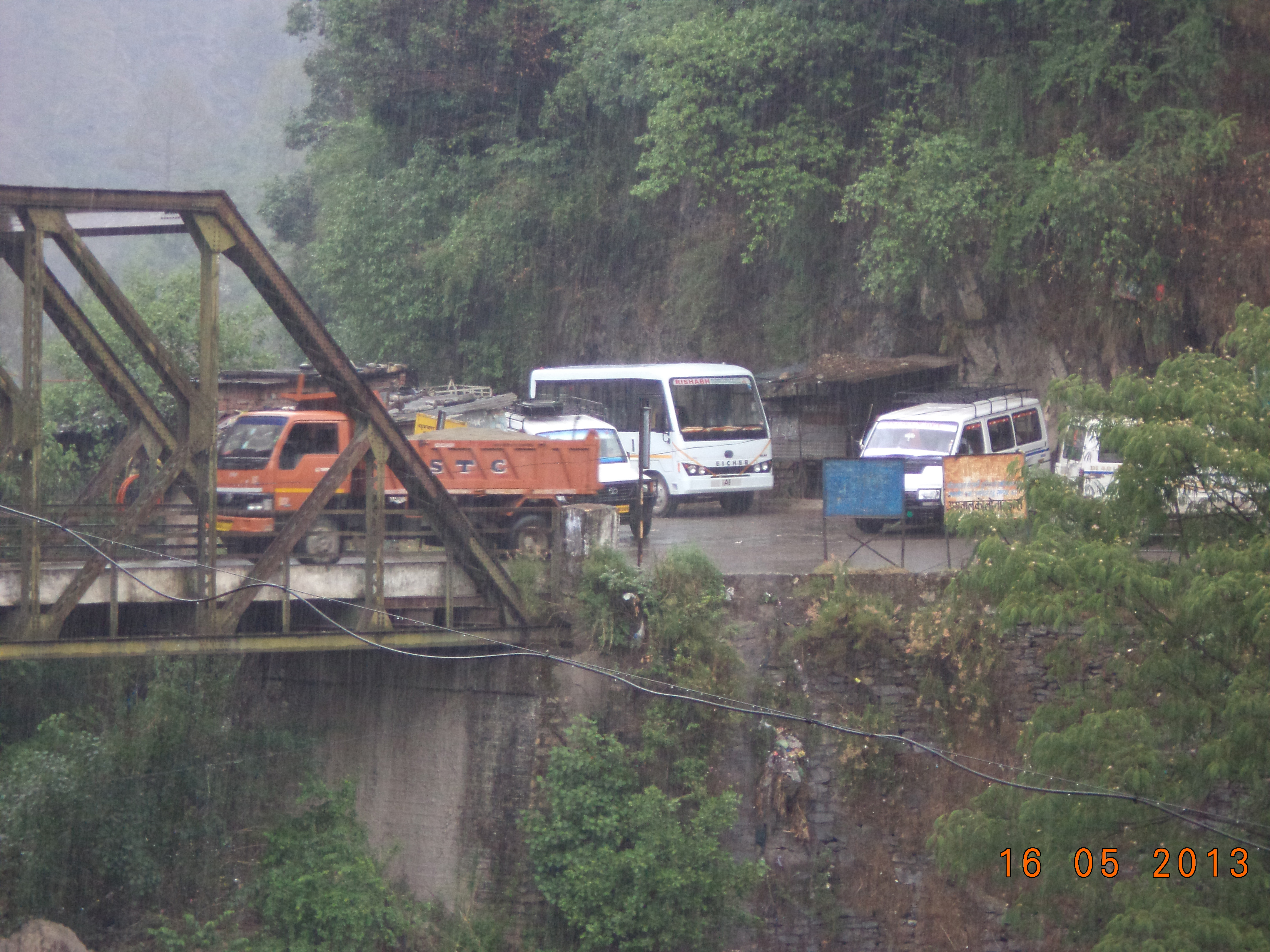 Station of Mehalchauri